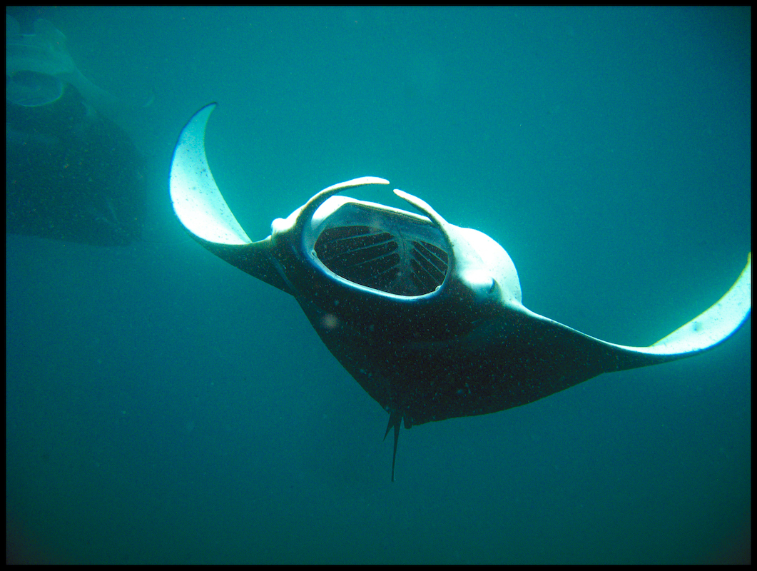 Diving with Manta Rays - totally amazing...